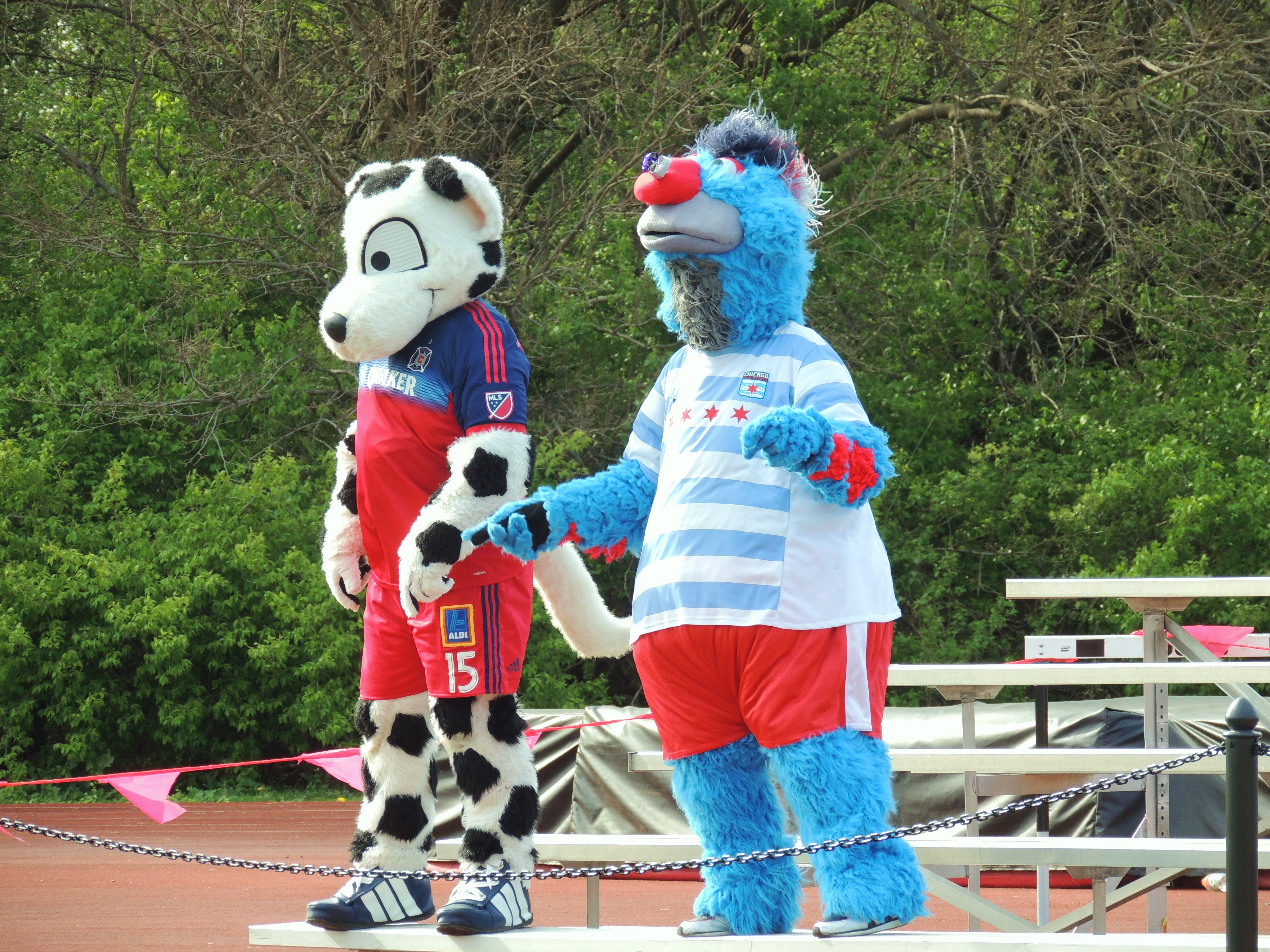 Chicago Fire mascot Sparky and Chicago Red Stars mascots Supernova